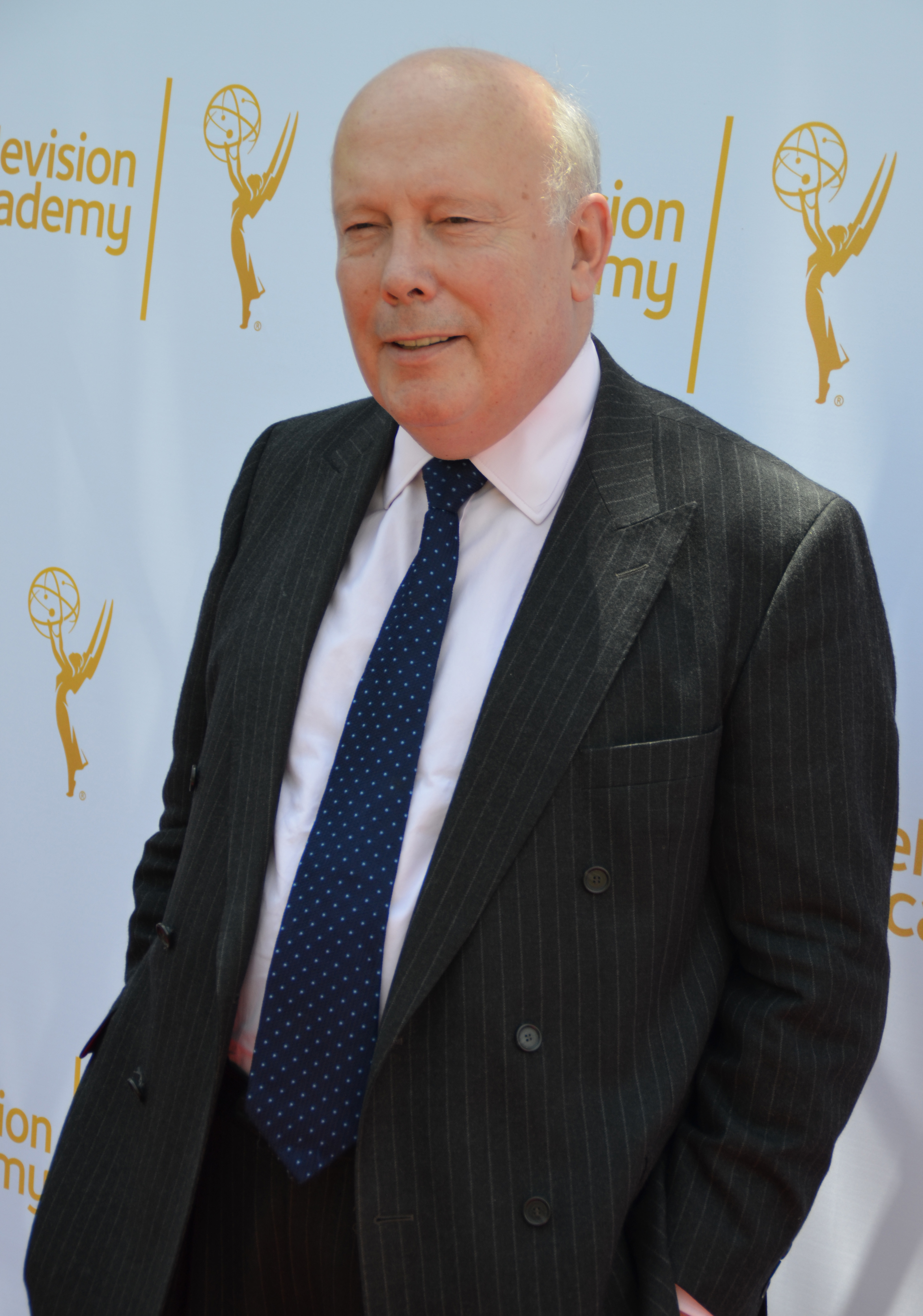 The Television Academy Hosts An Afternoon of Tea, Scones and Chatting with Downton Abbey Cast and Creators at Paramount Studios Saturday afternoon with the creative team and cast members of Downton Abbey at Paramount Studios for a behind-the-scenes look at this Primetime Emmy-winning PBS drama created by Julian Fellowes and co-produced by Carnival Films and Masterpiece.